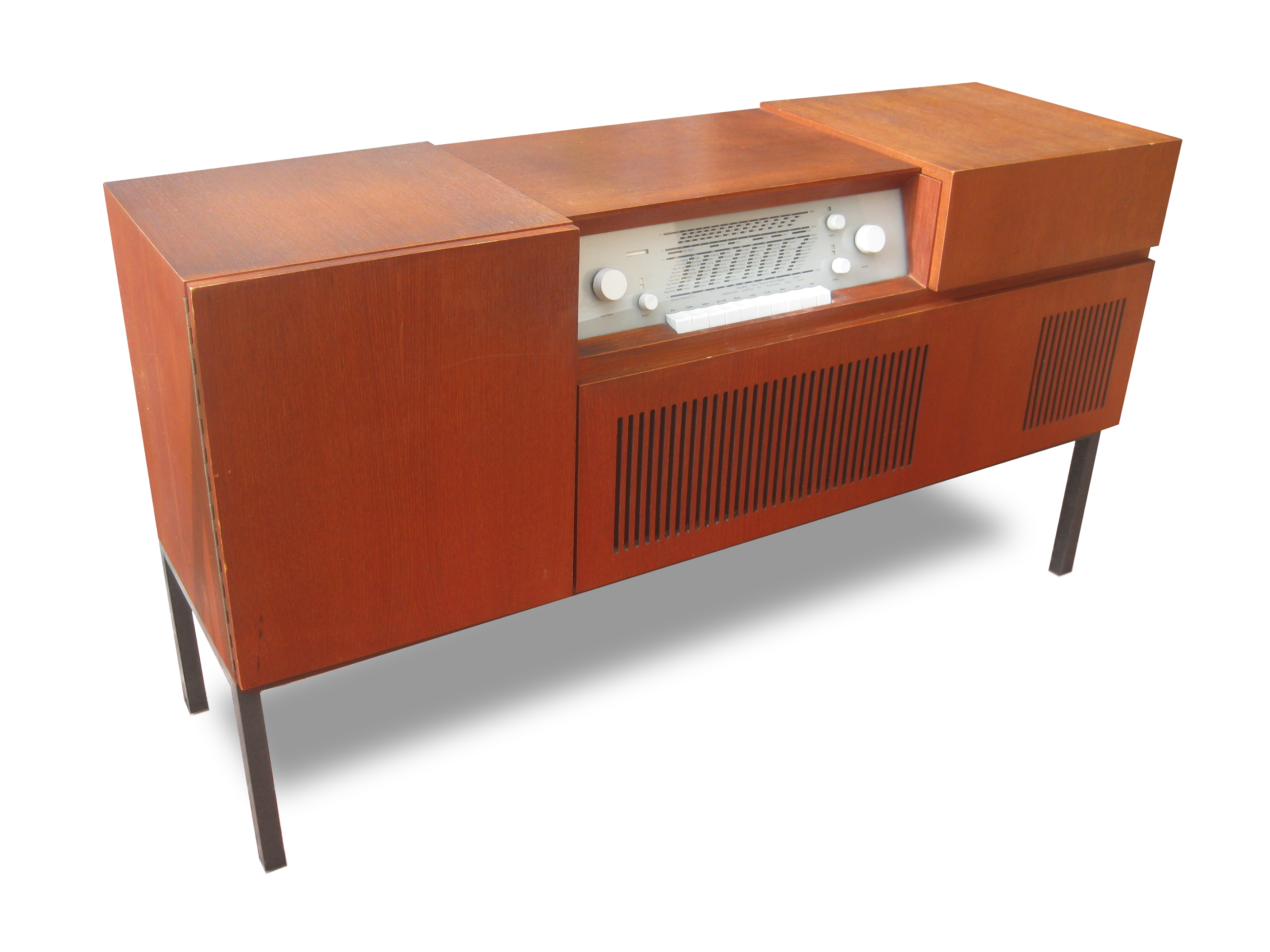 music-cupboard Braun HM 6-81, designed by Herbert Hirche